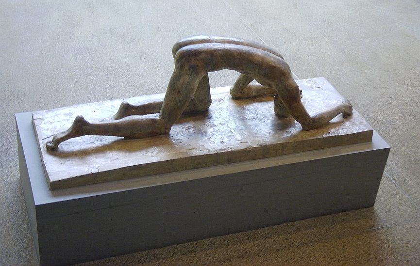 "Der Gestürzte" by Wilhelm Lehmbruck in plaster. Photographed by bodok2006 at the Wilhelm Lehmbruck Museum in Duisburg and published under GNU-Licence